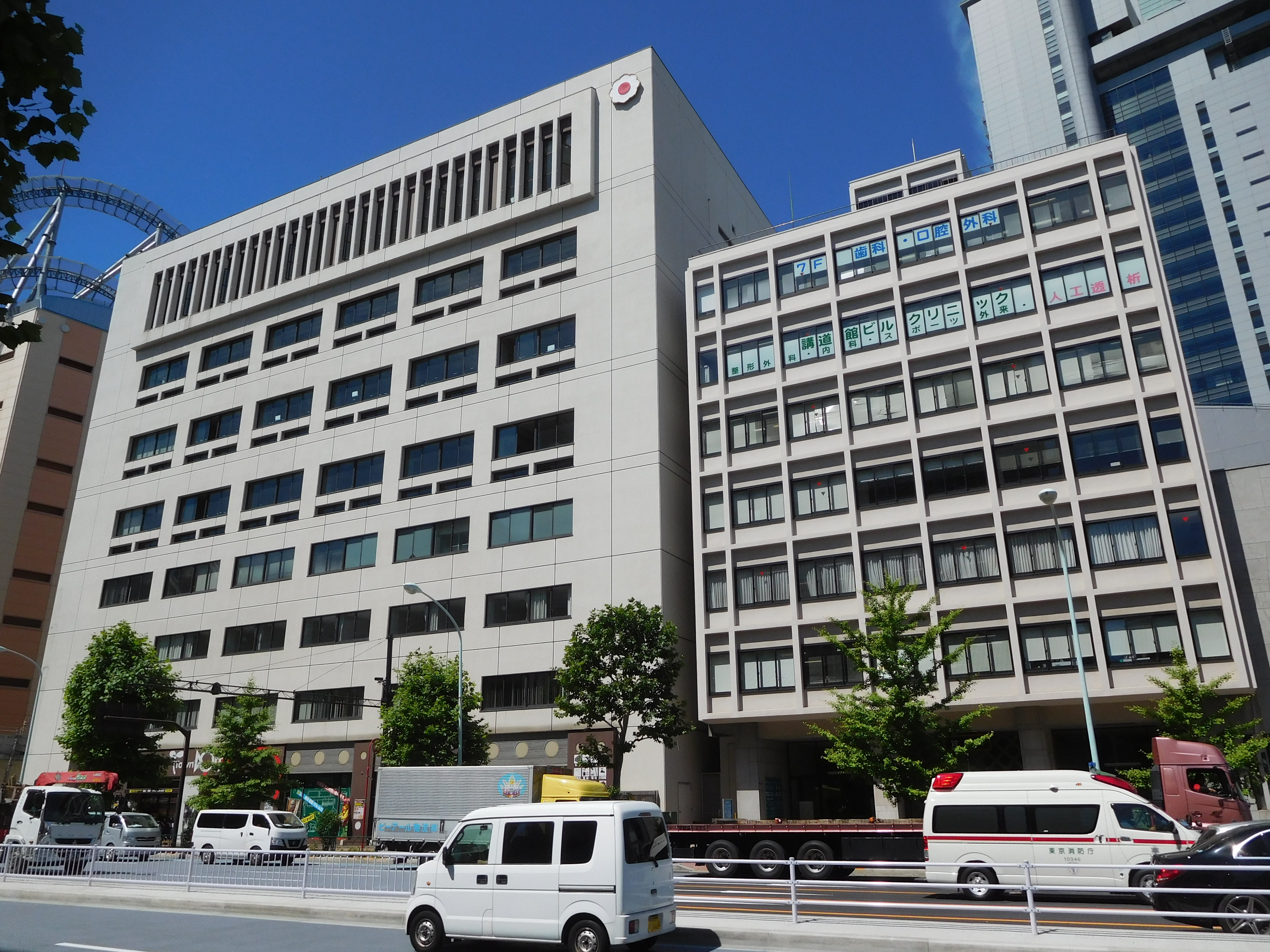 These buildings are Kodokan Judo Institute in Bunkyo, Tokyo, Japan. Right side building is Main of Kodokan, Left side building is Kodokan International Judo Center (new building).